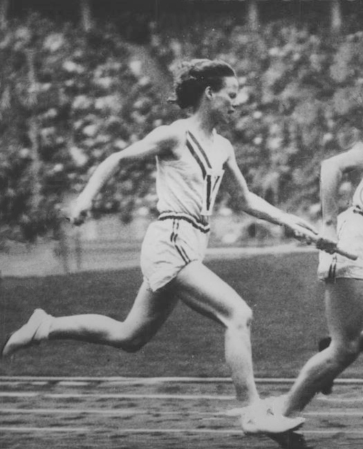 1936 Press Photo Olympic Runners Harriet Bland & Annette Rogers in Berlin